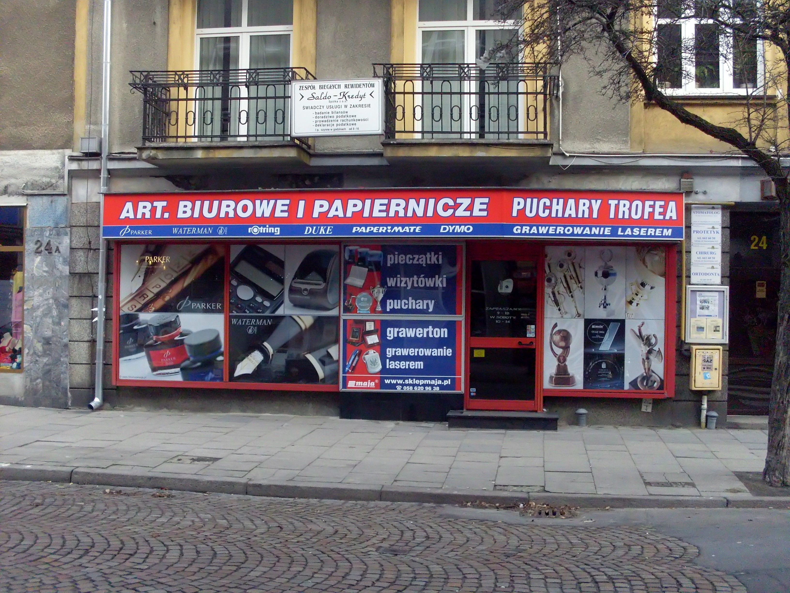 Stationer′s shop at ulica Starowiejska, Gdynia.